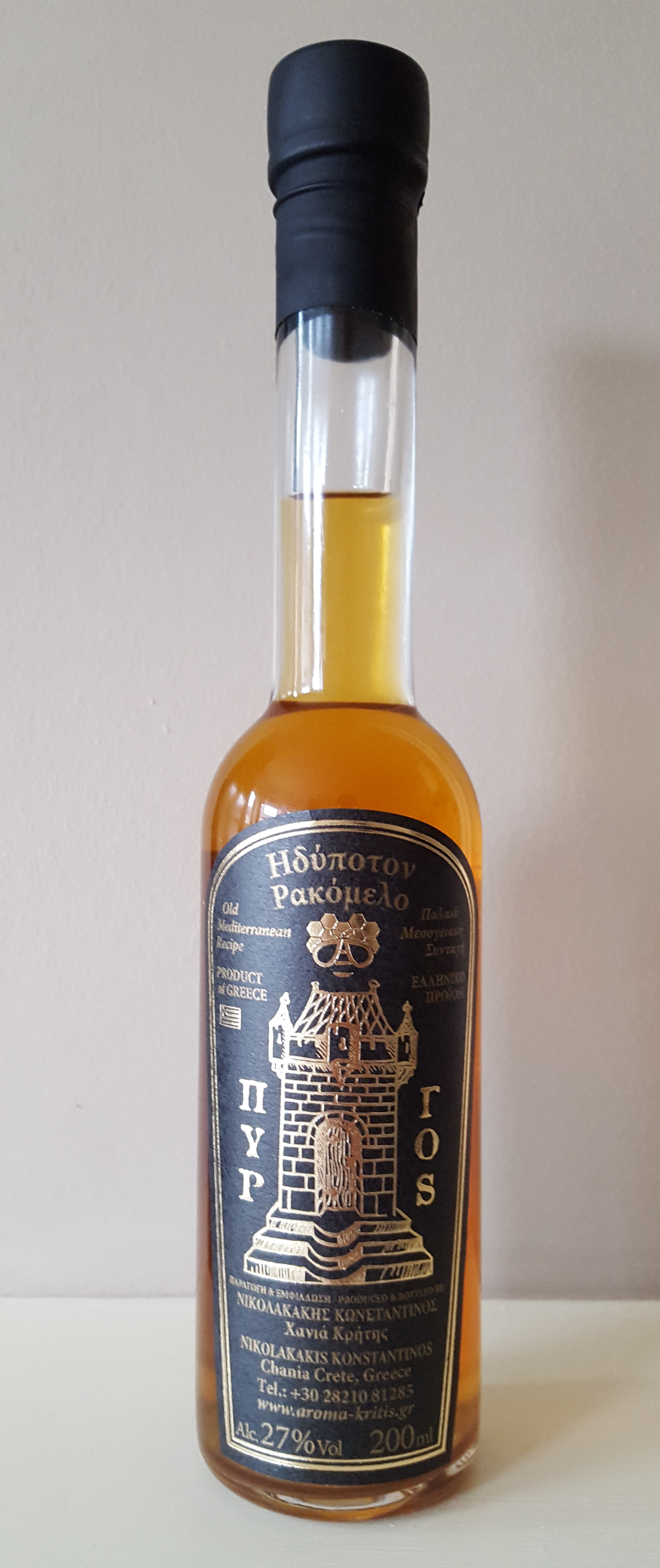 Bought for me as a gift, in Crete at the end of July 2016, by a Greek colleague.